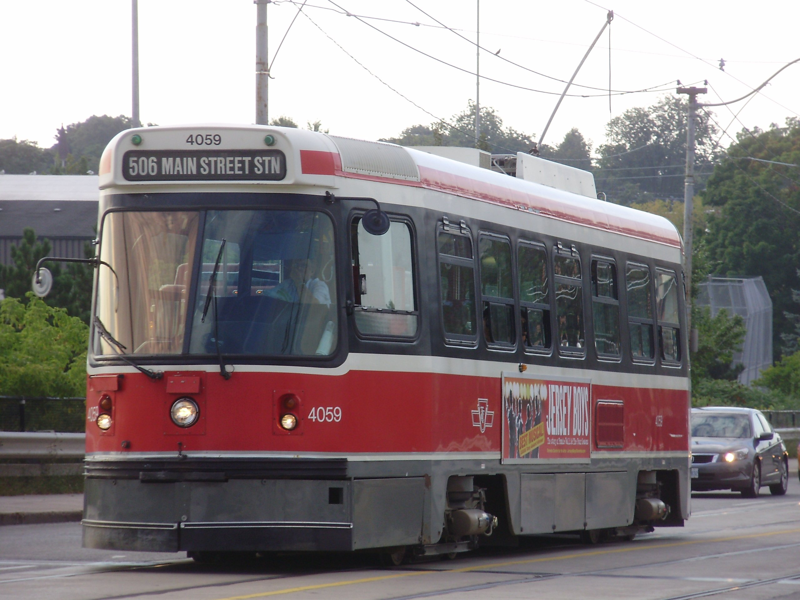 CLRV #4059 travels along the Main Street bridge, just south of Danforth Avenue, on the 506 Carlton route and bound for Main Street station in Toronto, Ontario, Canada.